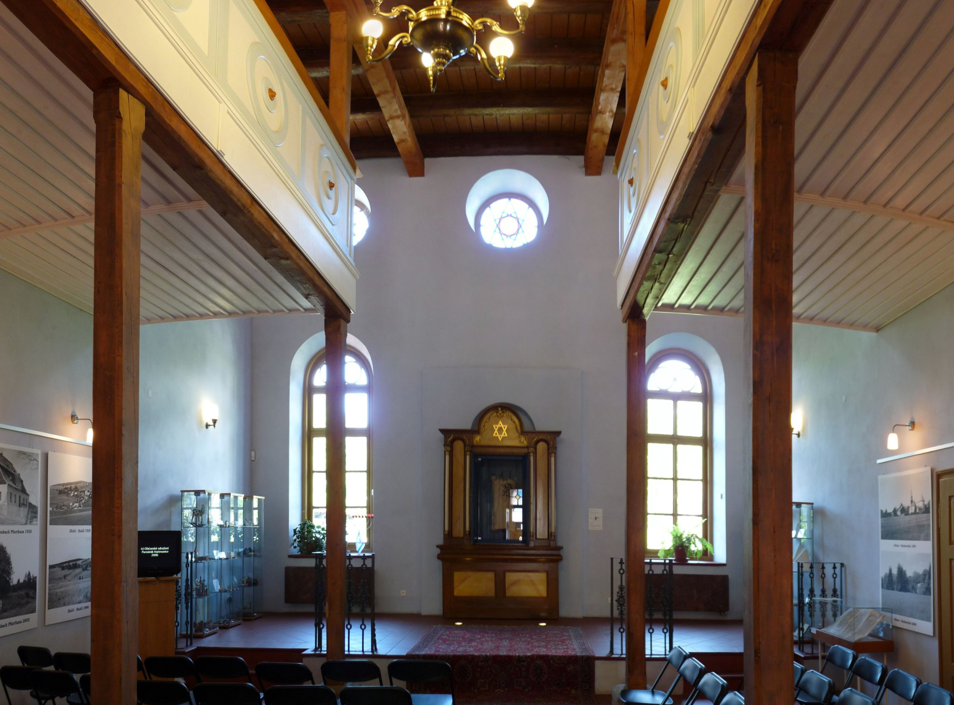 Interior of the synagogue in the town of Hartmanice, Klatovy District, Czech Republic